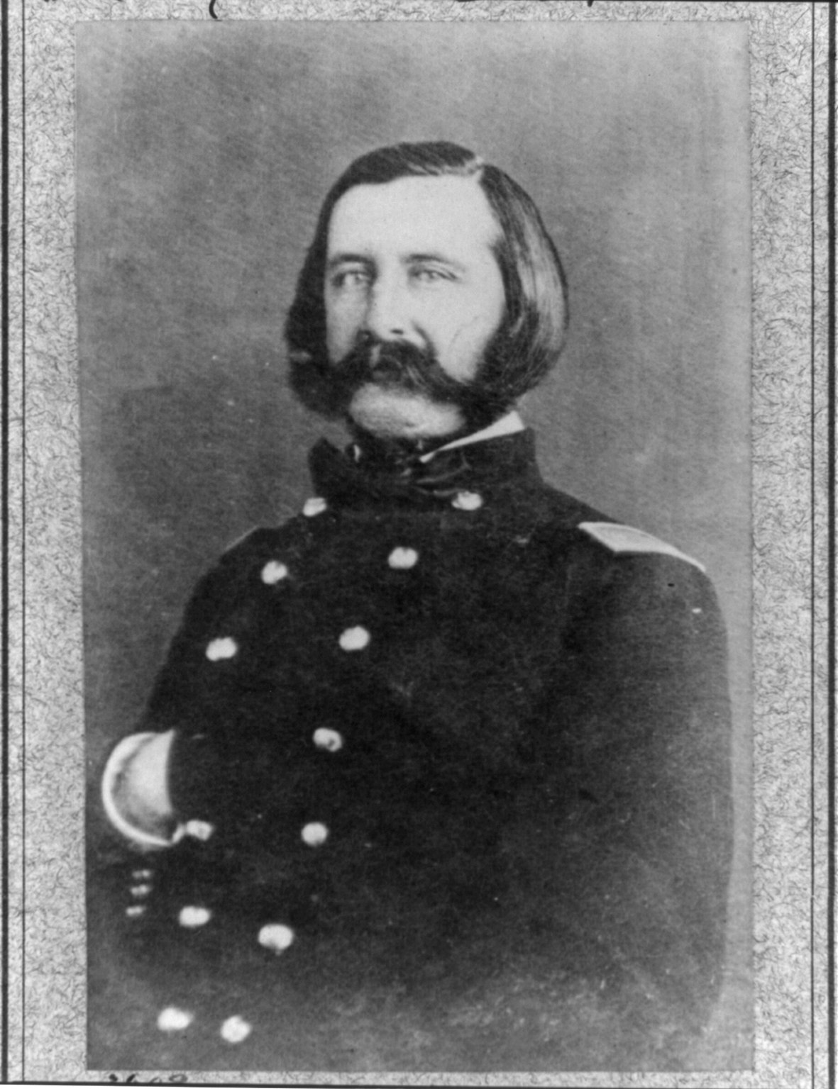 Title: John Haskell King, 1818-1888 Abstract: 1 photographic print.